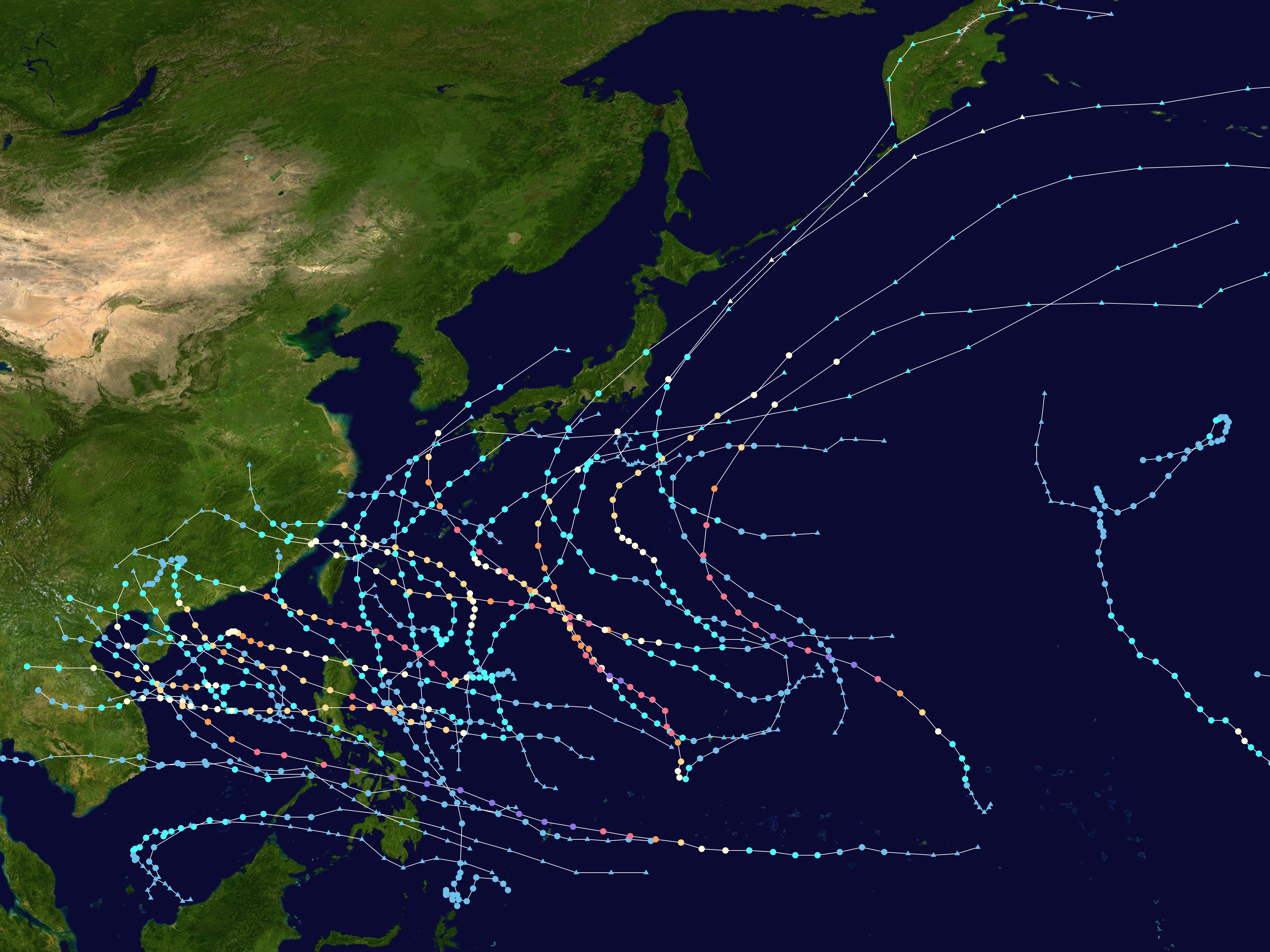 This map shows the tracks of all tropical cyclones in the 2013 Pacific typhoon season. The points show the location of each storm at 6-hour intervals. The colour represents the storm's maximum sustained wind speeds as classified in the Saffir-Simpson Hurricane Scale (see below), and the shape of the data points represent the type of the storm. Saffir–Simpson scale Tropical depression≤38 mph≤62 km/h Category 3111–129 mph178–208 km/h Tropical storm39–73 mph63–118 km/h Category 4130–156 mph209–251 km/h Category 174–95 mph119–153 km/h Category 5≥157 mph≥252 km/h Category 296–110 mph154–177 km/h Unknown Storm type Tropical cyclone Subtropical cyclone Extratropical cyclone / Remnant low / Tropical disturbance / Monsoon depression